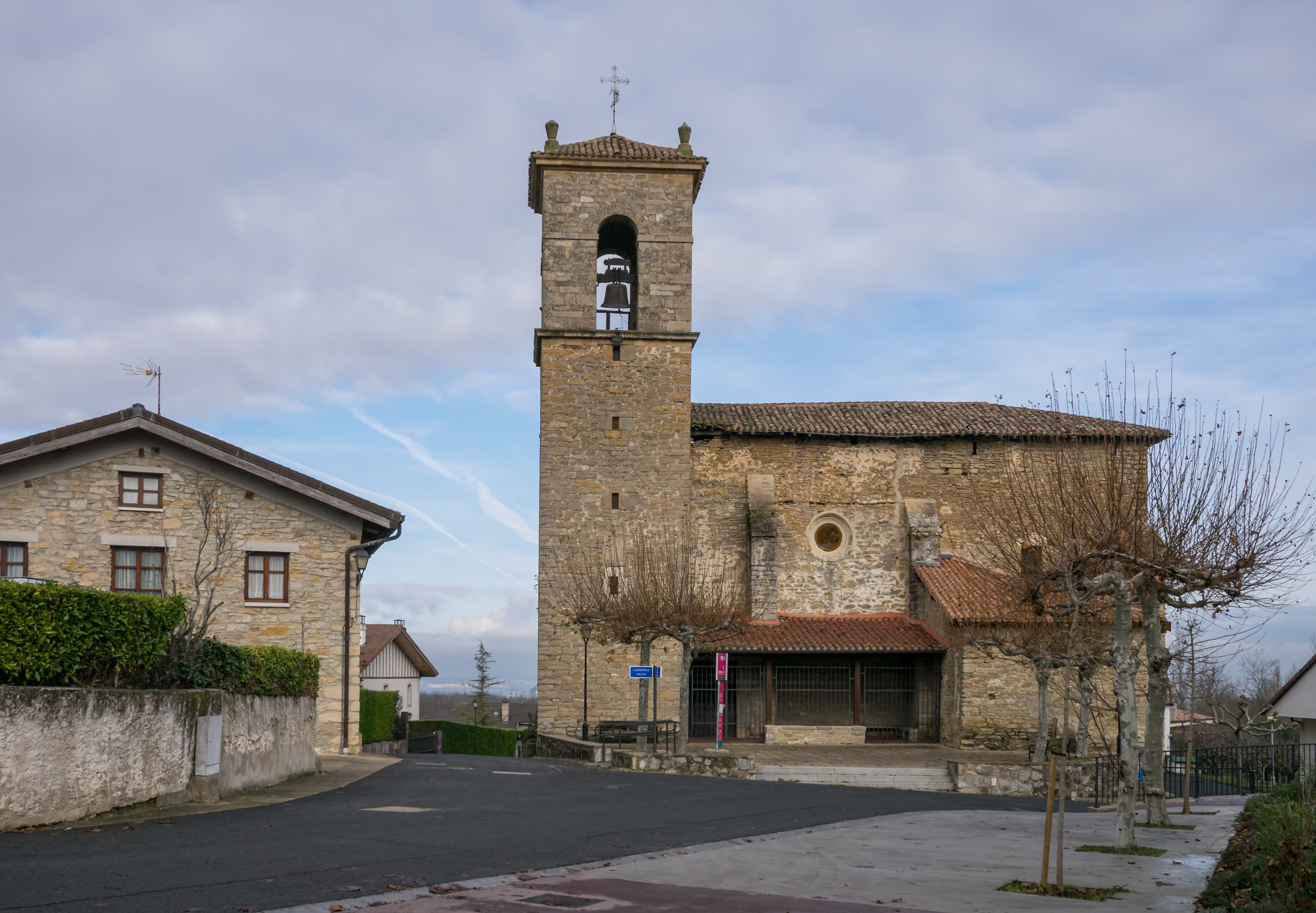 Church of Berrostegieta. Álava, Basque Country, Spain